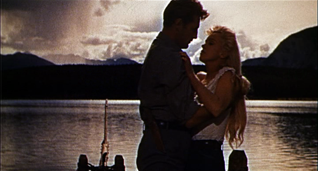 Robert Mitchum and Marilyn Monroe in River of No Return (1954)